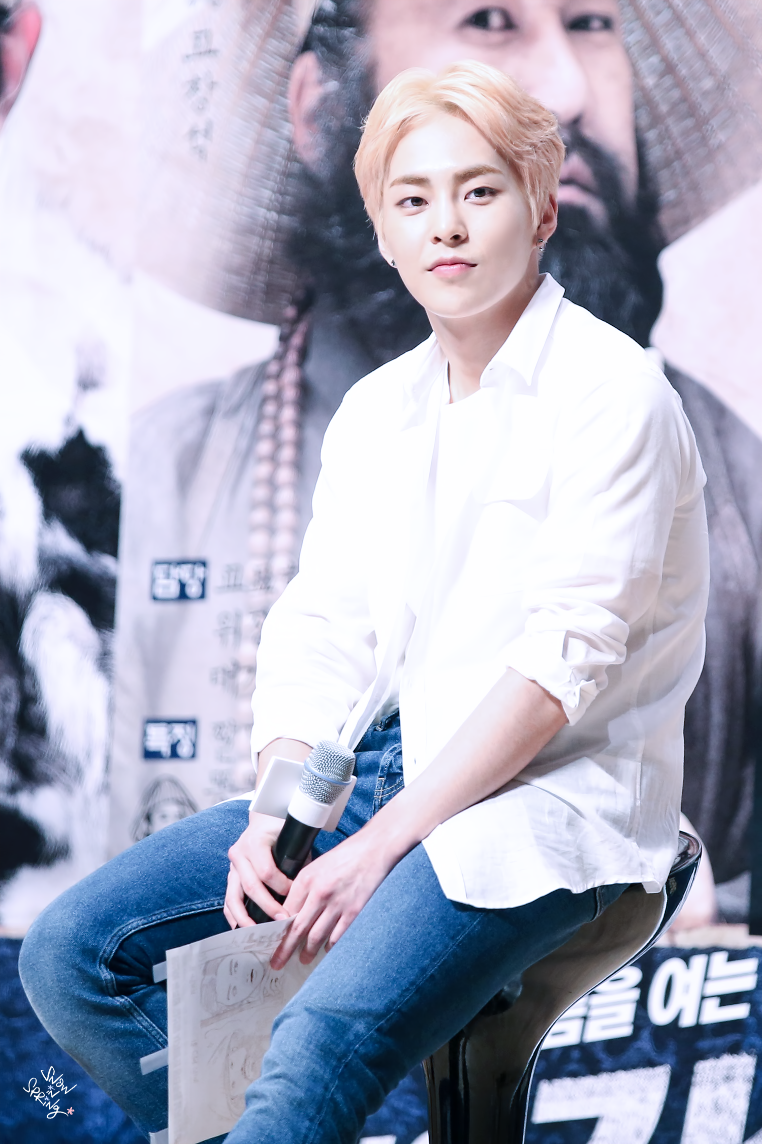 Xiumin at the Seondal: The Man Who Sells the River showcase on June 22, 2016.